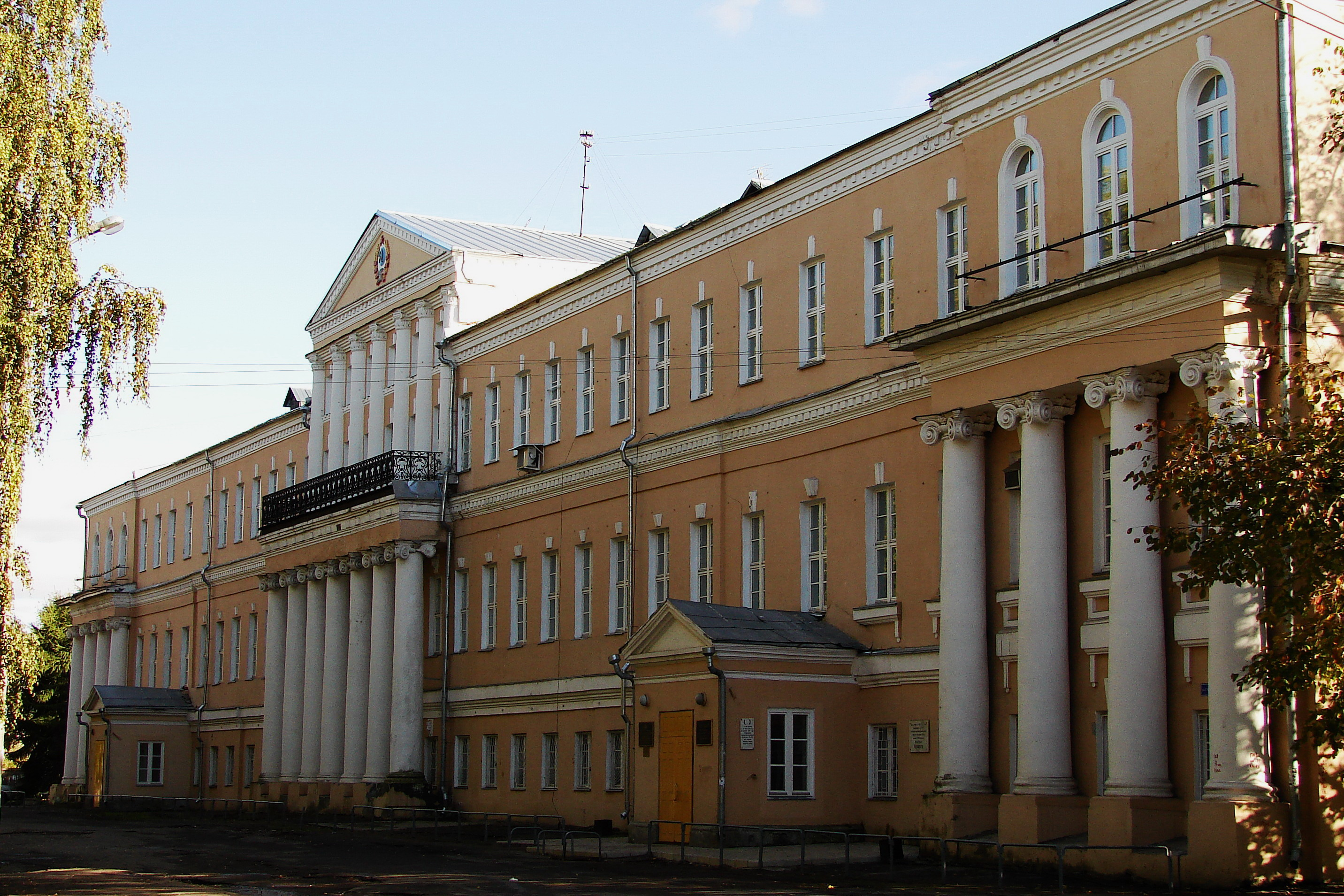 Russia, Vologda, Men's Gymnasium (hospice)